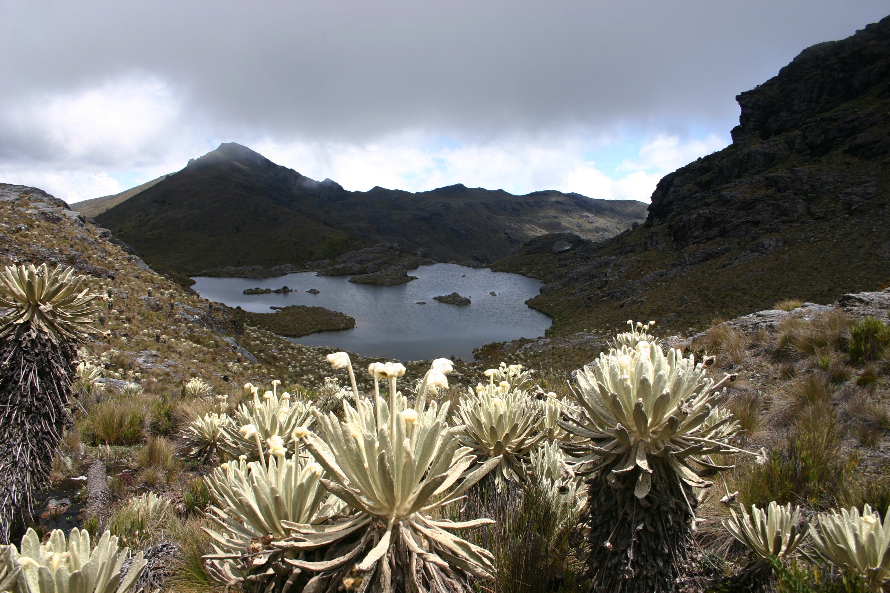 Laguna Verde, Limite Municipios Silos y Mutiscua, Paramo Santurban, Colombia